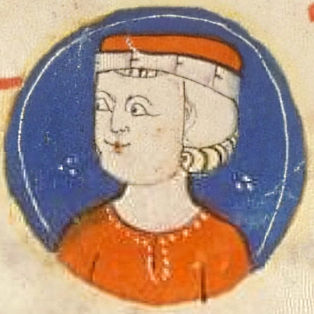 Philippe Hurepel